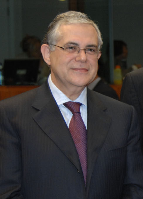 Greek Prime Minister Lucas Papademos